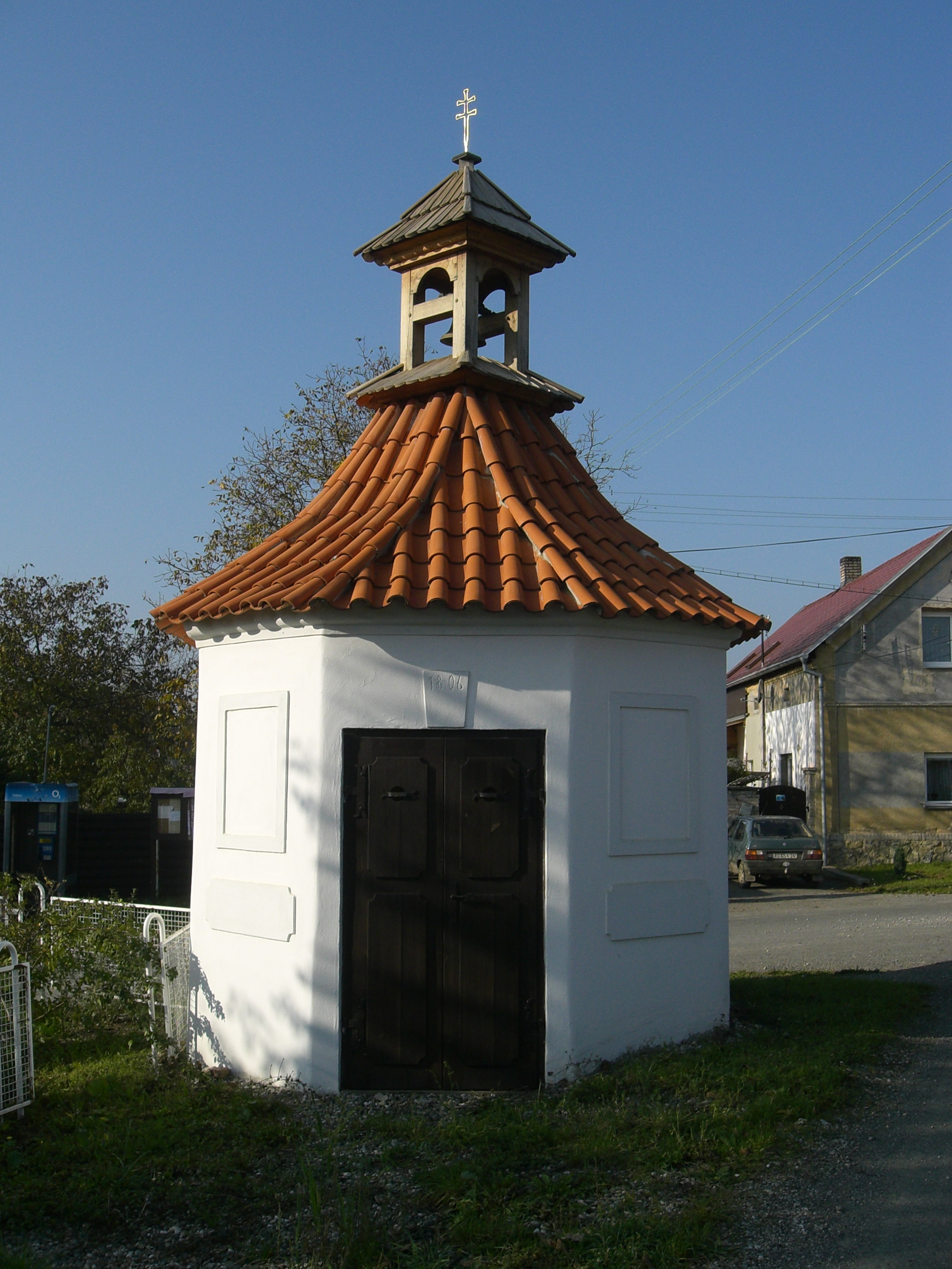 Octogonal chapel from early 19th century in village of Roblín village, Prague-West District, Czech Republic.